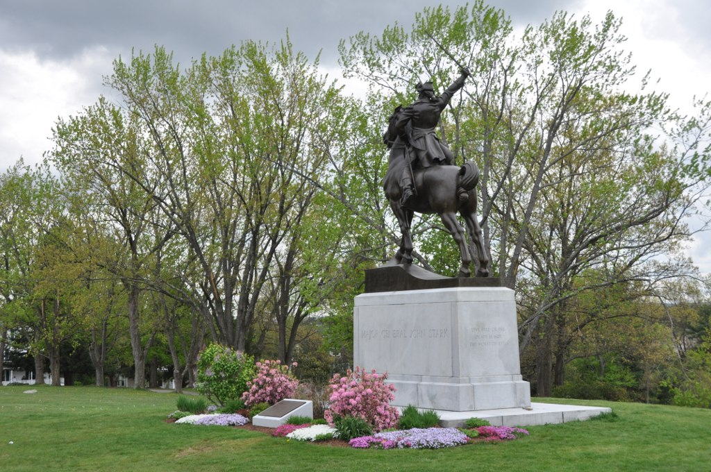 Equestrian statue of American Revolutionary War General John Stark, located in Stark Park, Manchester, New Hampshire.